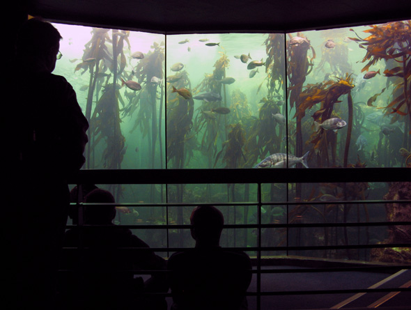 Two Oceans Aquarium, Cape Town